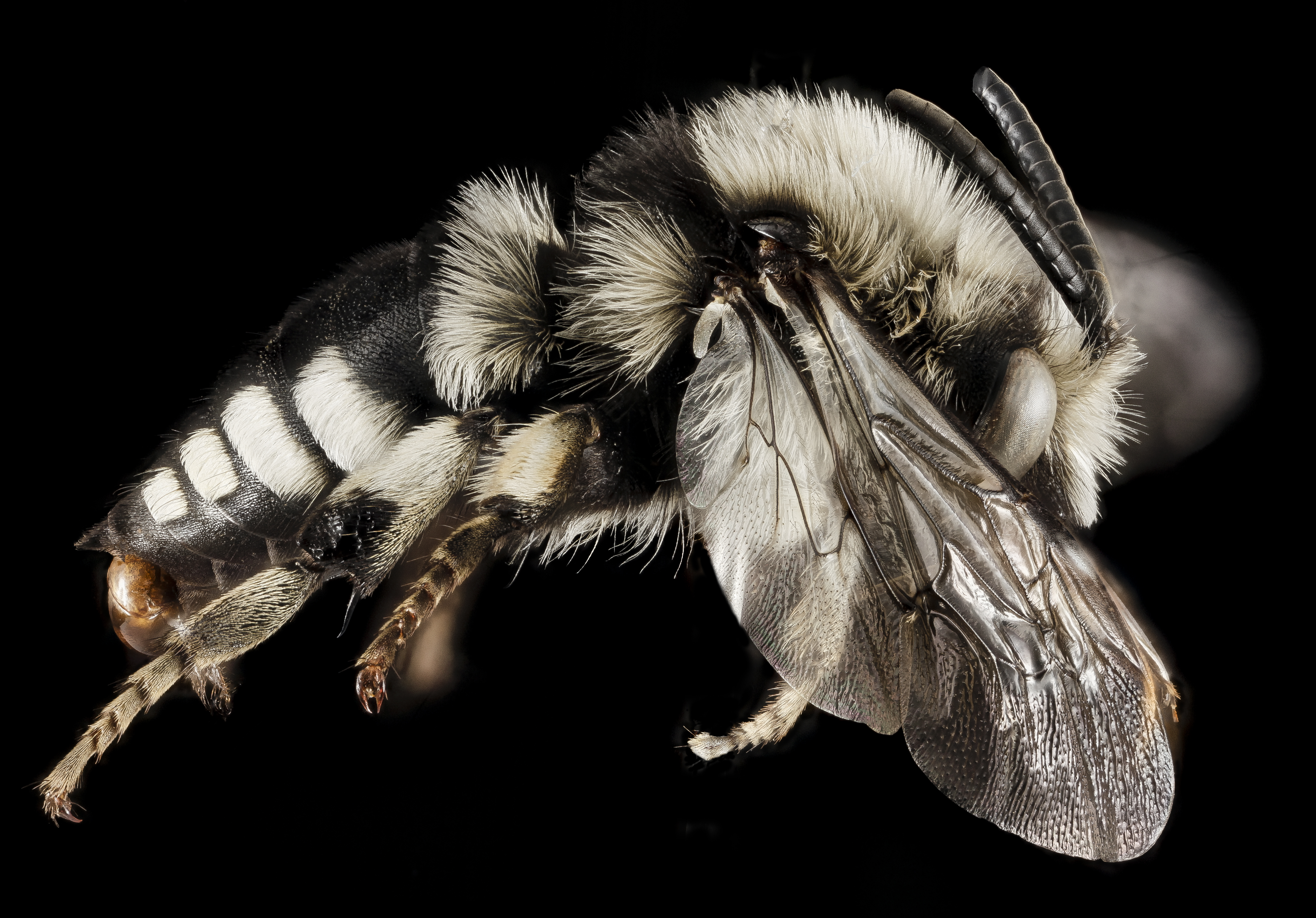 Here we have the light colored form of Melecta albifrons, and because of that given the subspecies name albovaria. A very variable species found widespread throughout Europe and the Mediterranean, as its host is the very common species Anthophora plumipes. Collected on Grecian Isle Lesvos by Jelle Devalez as part of a study of the bees fauna of the region. Pictures by Brooke Alexander 00:13, 11 March 2015 (UTC)00:13, 11 March 2015 (UTC) 0 00:13, 11 March 2015 (UTC)00:13, 11 March 2015 (UTC) All photographs are public domain, feel free to download and use as you wish. Photography Information: Canon Mark II 5D, Zerene Stacker, Stackshot Sled, 65mm Canon MP-E 1-5X macro lens, Twin Macro Flash in Styrofoam Cooler, F5.0, ISO 100, Shutter Speed 200 The grass so little has to do, A sphere of simple green, With only butterflies to brood, And bees to entertain, - Emily Dickinson Contact information: Sam Droege 301 497 5840